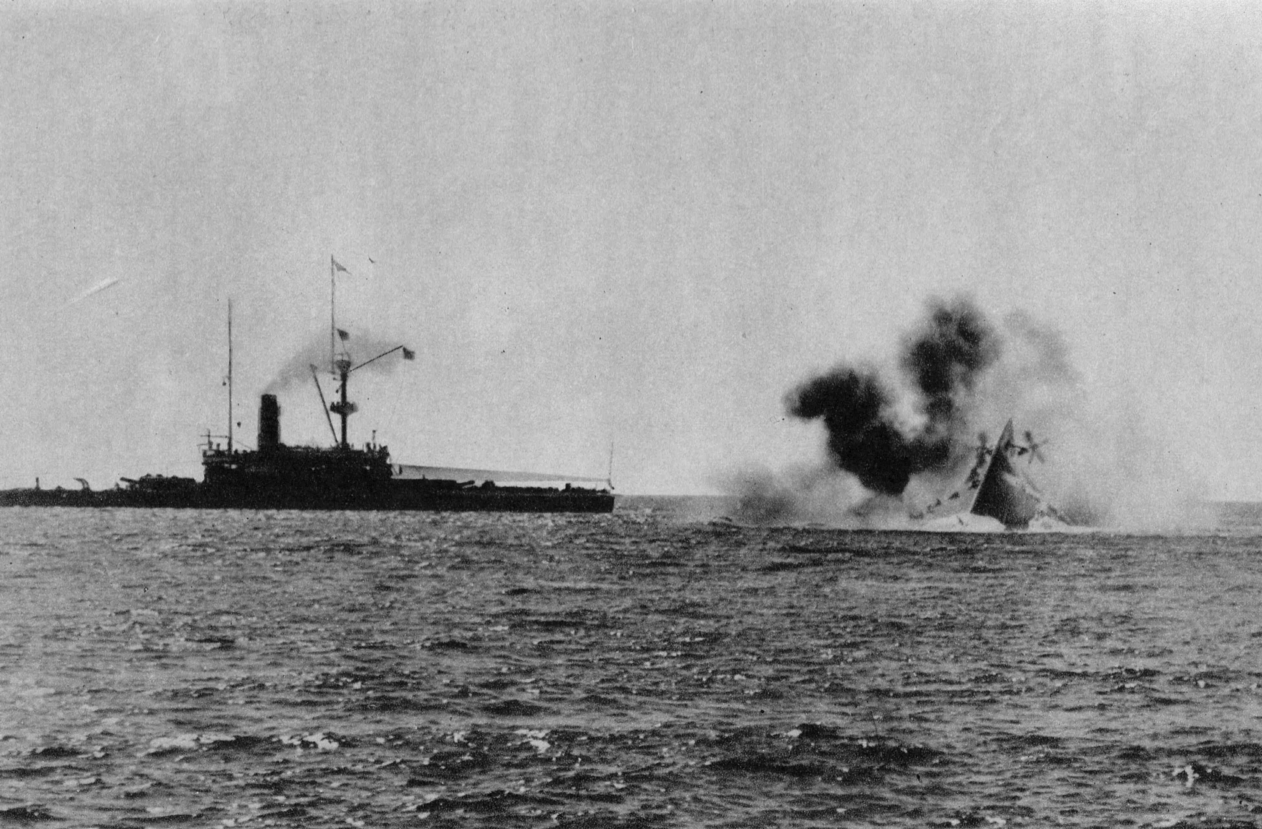 HMS Victoria sinking after collision with HMS Camperdown during exercises in the Mediterranean. Other ship in picture is HMS Nile.